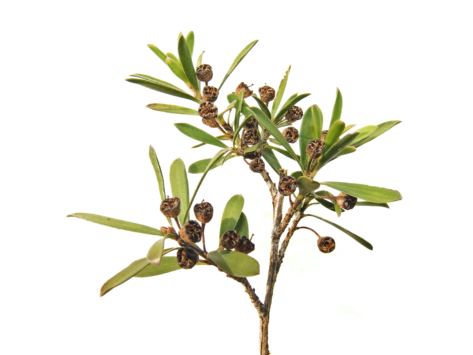 Burgan Ti-tree. Leptospermum phylicoides